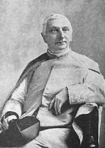 Thomas Scott Preston (born at Hartford, Connecticut, 23 July 1824; died at New York, 4 November 1891) was a Roman Catholic Vicar-General of New York, prothonotary Apostolic, chancellor, author, preacher, and administrator.